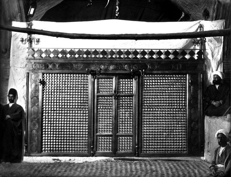 The First Zarih of Al-Baqi' Imams before Demolition by the Wahhabis.